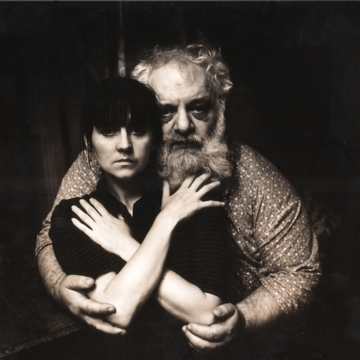 Russian theatre director Boris Ponizovsky and actress Galina Vikulina